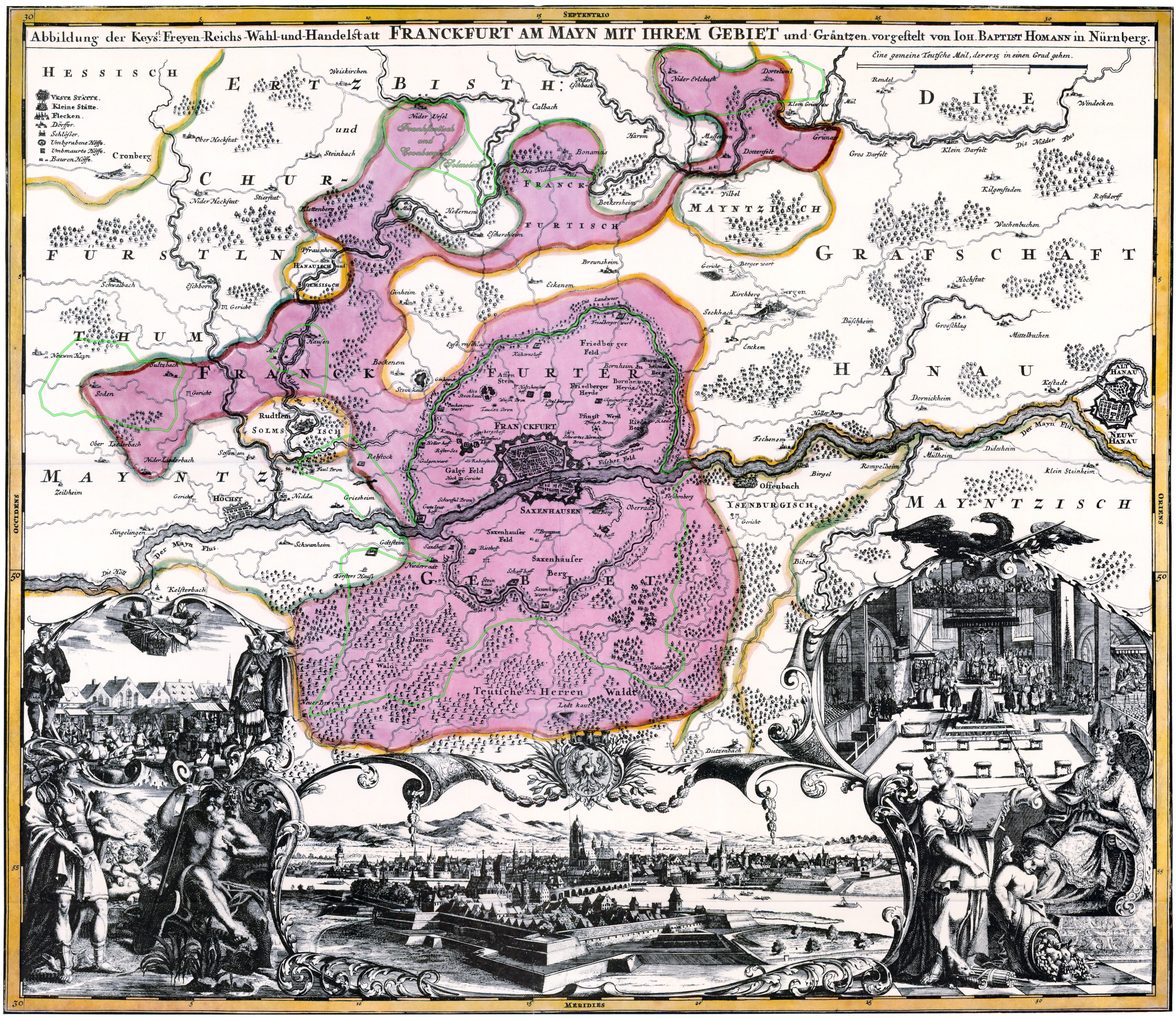 Frankfurt on the Main: City and surroundings in the early 18th century; the somewhat fanciful, highly overdrawn borders of Frankfurt by Johann Baptist Homann have been corrected in green according to Friedrich Bothe. Homann himself published a variant of his map showing in precise detail the actual territory of Frankfurt, including its exclaves (see below).